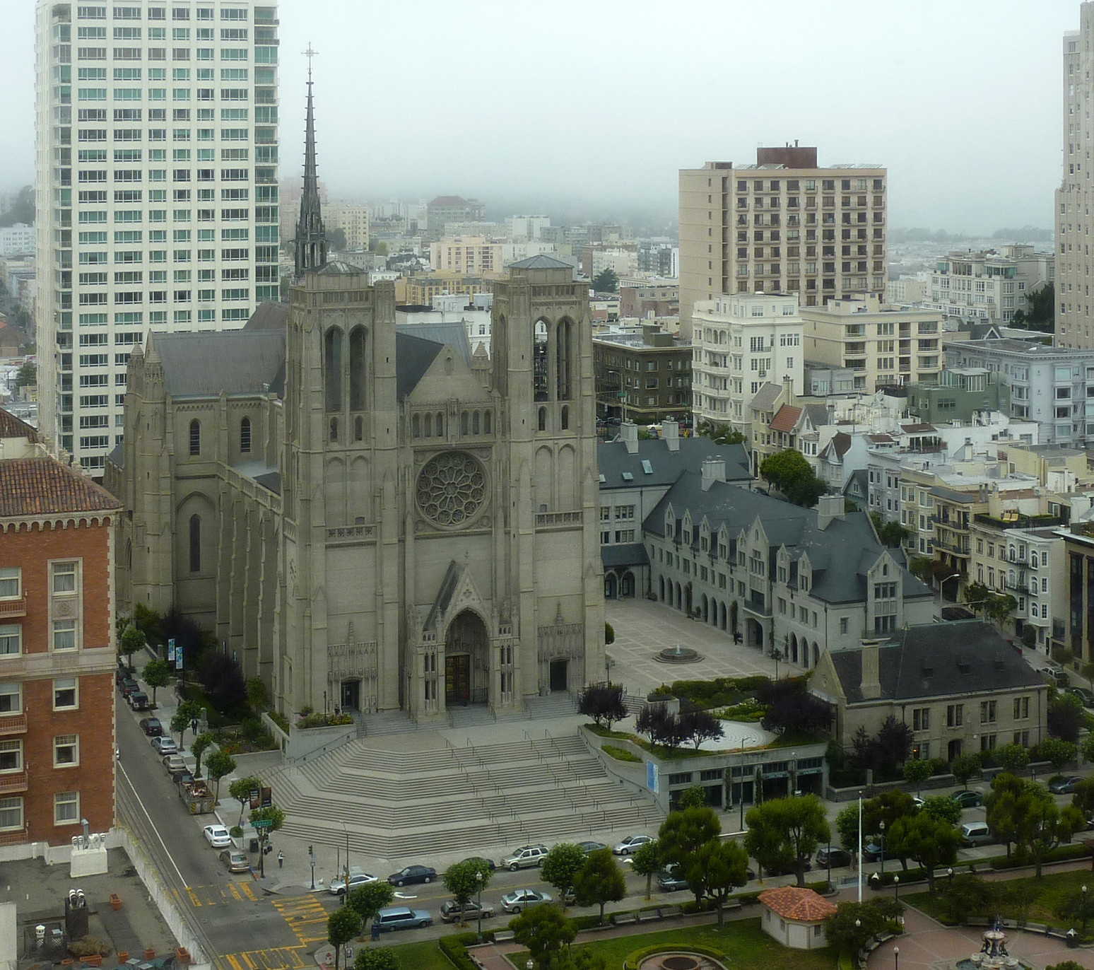 The Grace Cathedral and attached buildings of the Episcopal Diocese of California, San Francisco, California, USA. Compared to the original version, this photograph has been processed using HugIn to correct perspective.